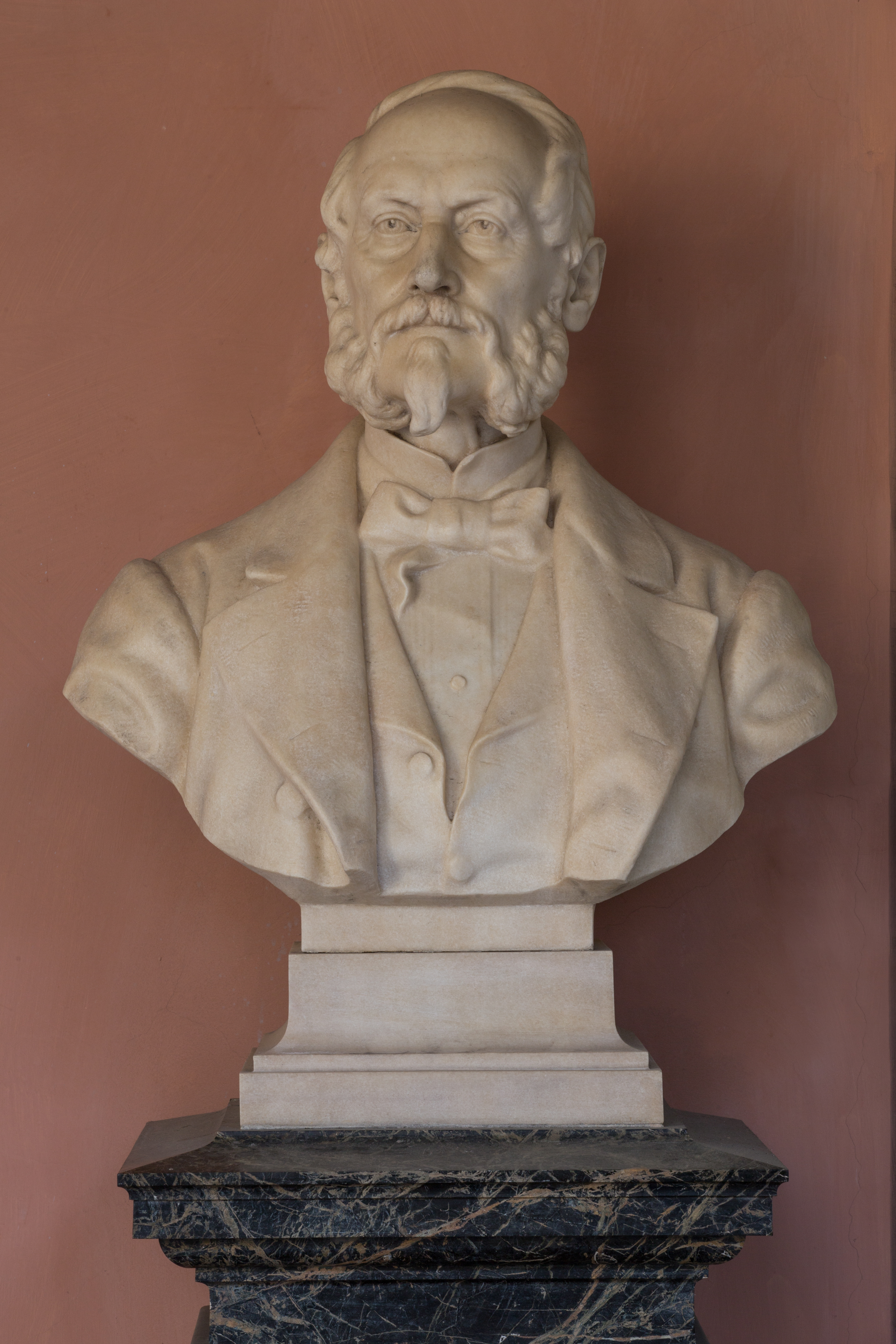 Franz Unger (1800-1870), relief (marble) in the Arkadenhof of the University of Vienna, (Maisel# 32). Artist: Jakob Gruber (1864-1915), unveiled 1901 The making of this work was supported by Wikimedia Austria. For other files made with the support of Wikimedia Austria, please see the category Supported by Wikimedia Österreich.